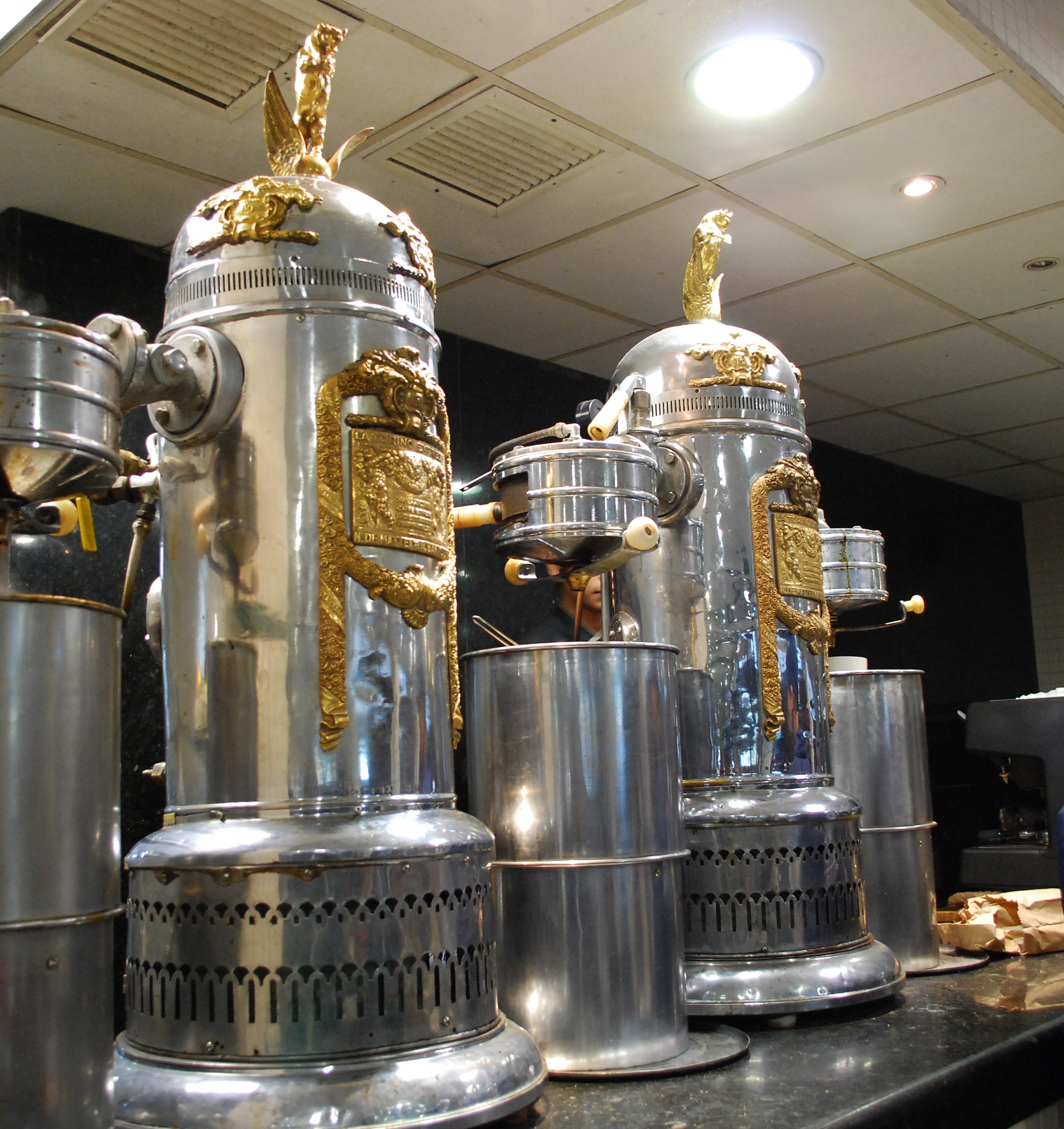 Coffee machines at the Cafe la Parroquia in Veracruz, Mexico